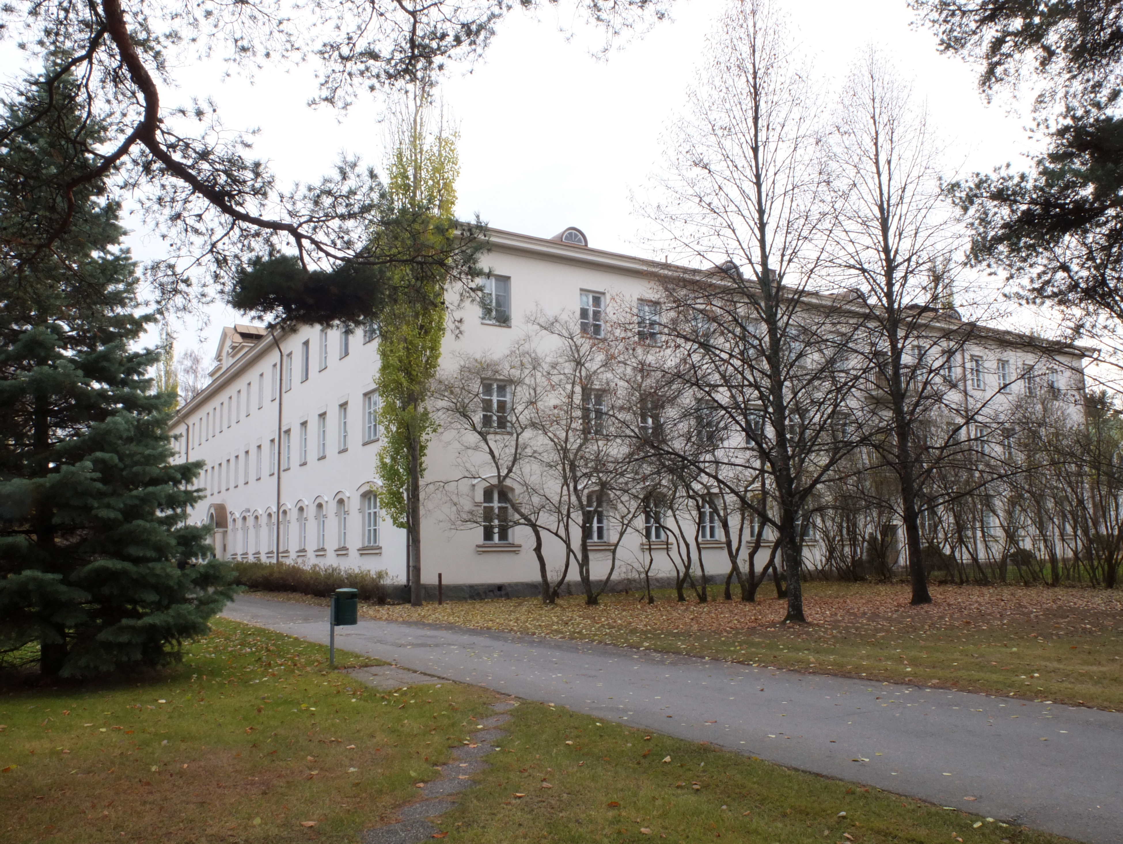 Psychiatric hospital in Harjavalta, Finland.